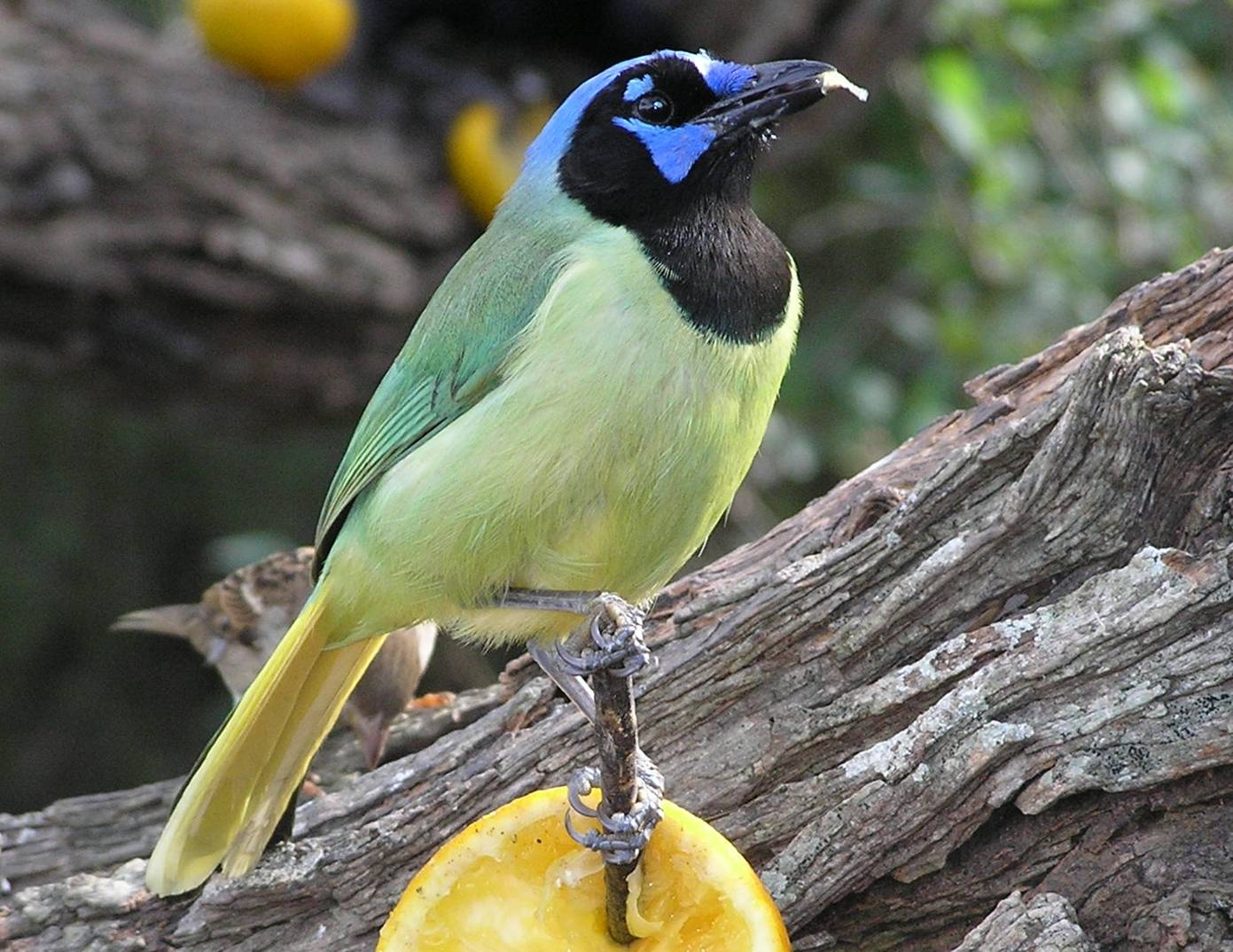 A Green Jay Cyanocorax luxuosus eating oranges at the bird feeding station outside the visitor centre at Laguna Atascosa National Wildlife Refuge, Texas, USA.